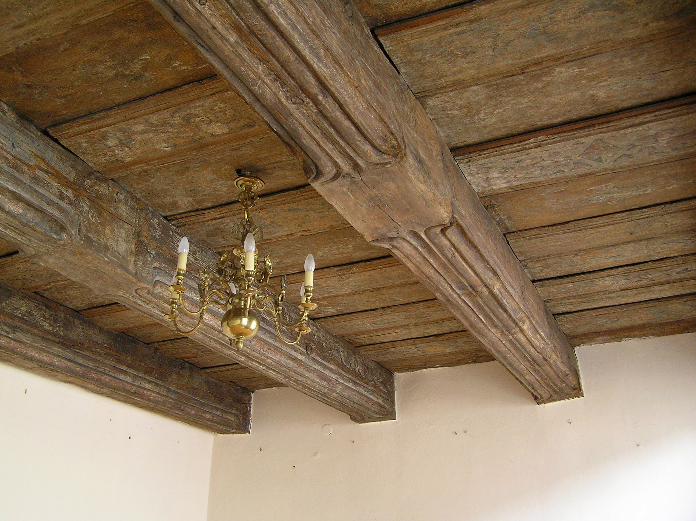 Toruń, Kopernika 21 Str., wooden beam ceiling on the 1st floor